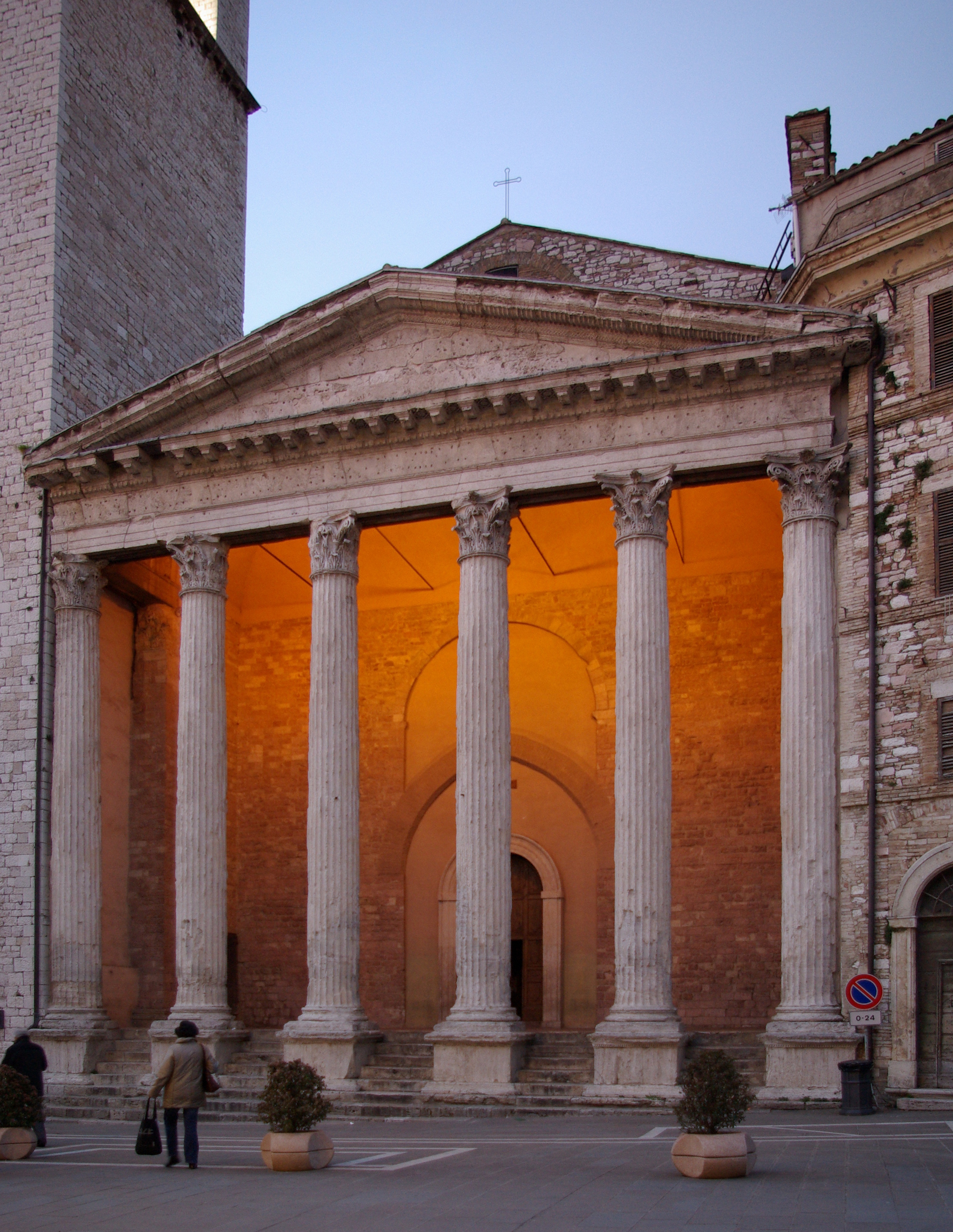 Assisi, Piazza del Comune, Santa Maria sopra Minerva